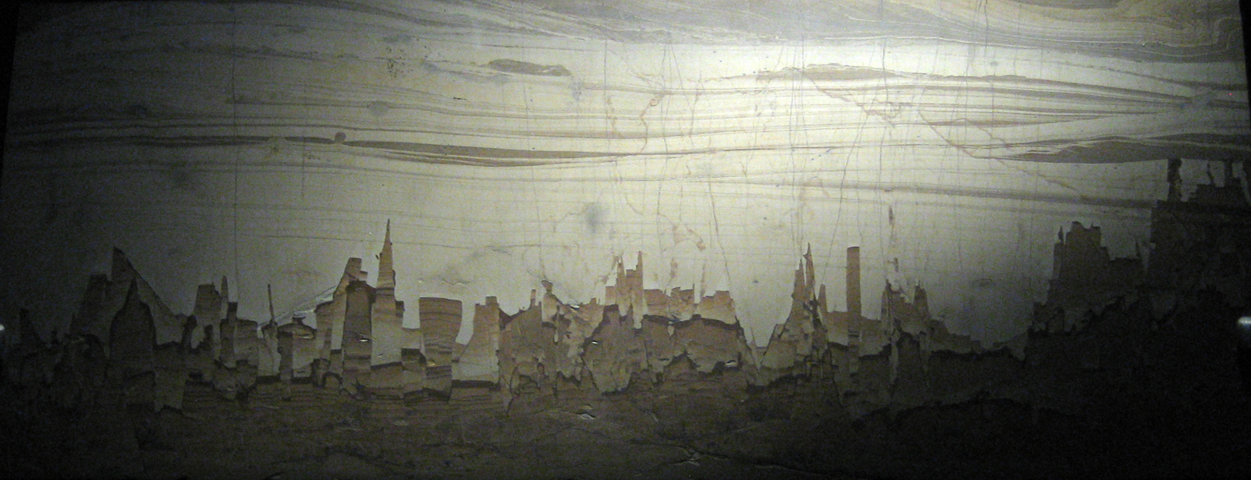 Photo of ruin marble taken in the Natural History Museum, London. Ruin marble gets its name from the pattern of light and dark components that give it the appearance of a ruined city-scape. Like all marble this stone began as a calcium carbonate deposit that consolidated into limestone. Marble forms when limestone metamorphoses as a result of being buried and subjected to heat and pressure. In this case the process has led to the distinctive patterned appearance.